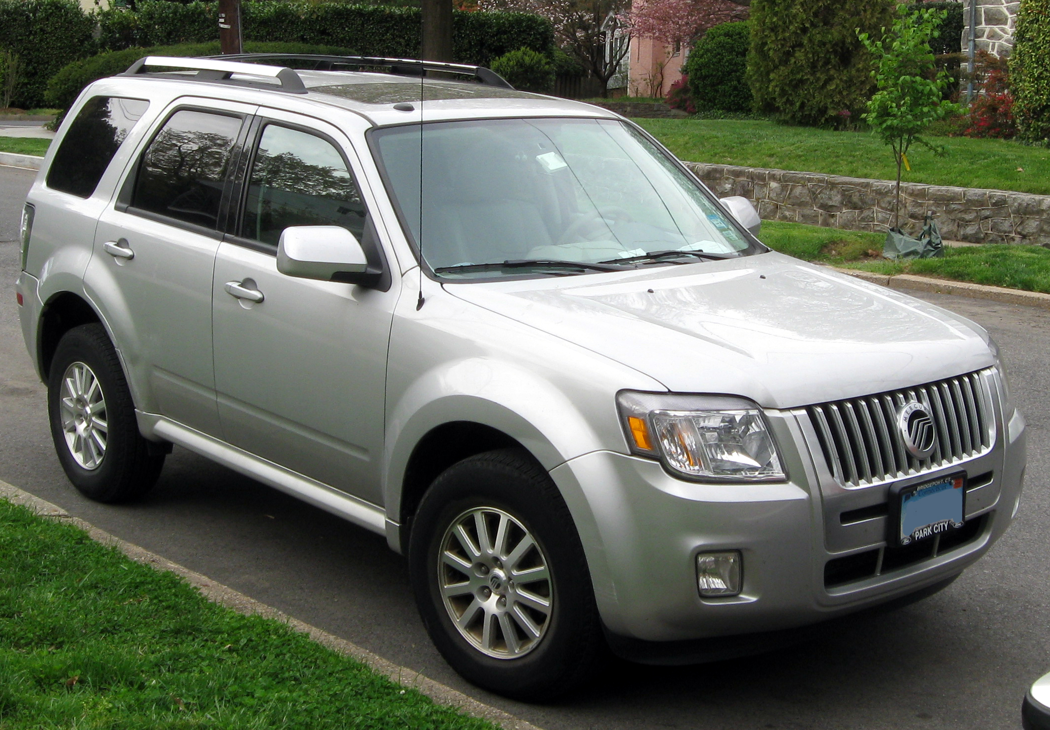 2008-2011 Mercury Mariner photographed in Washington, D.C., USA.